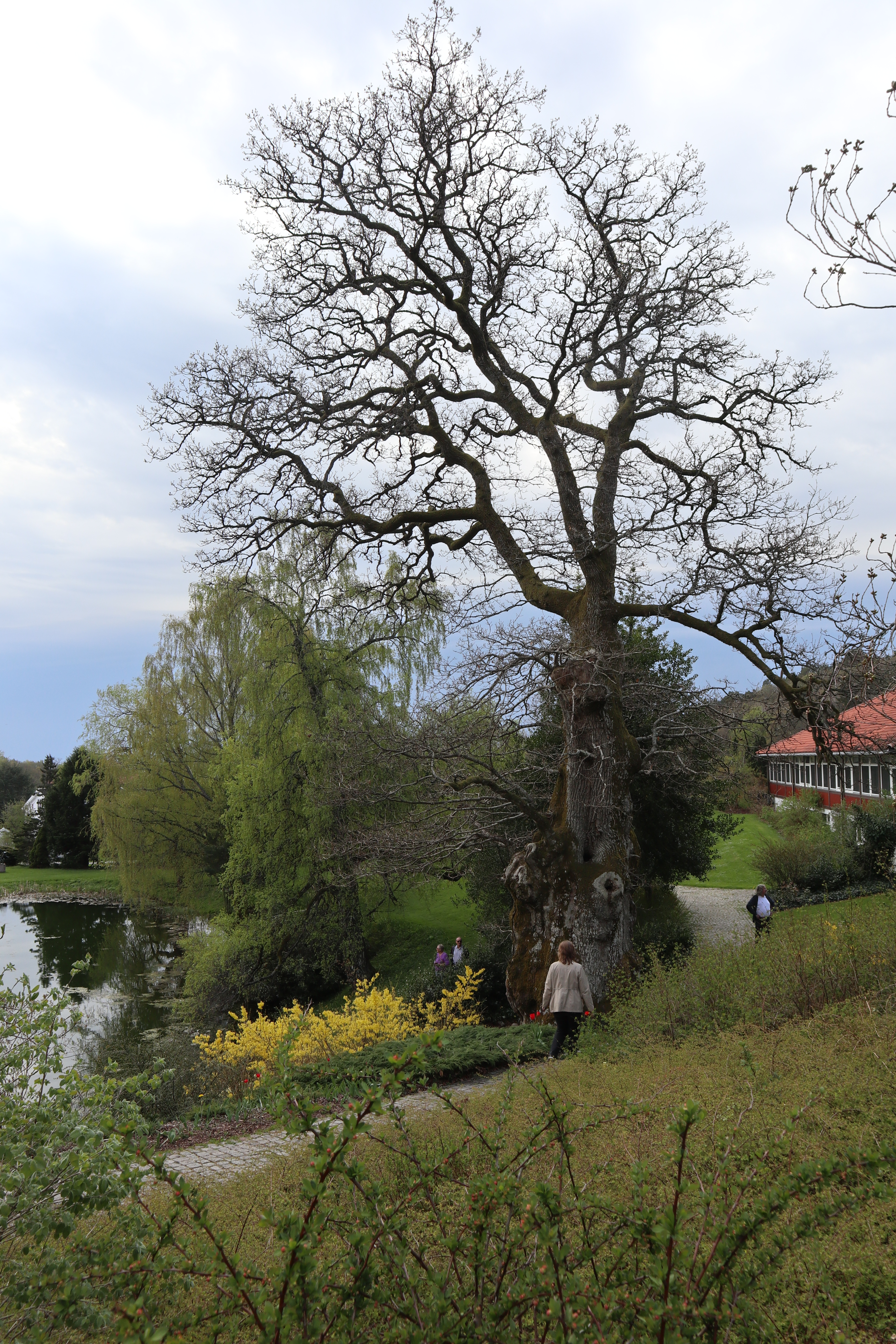 The oak of Dømmesmoen, Grimstad